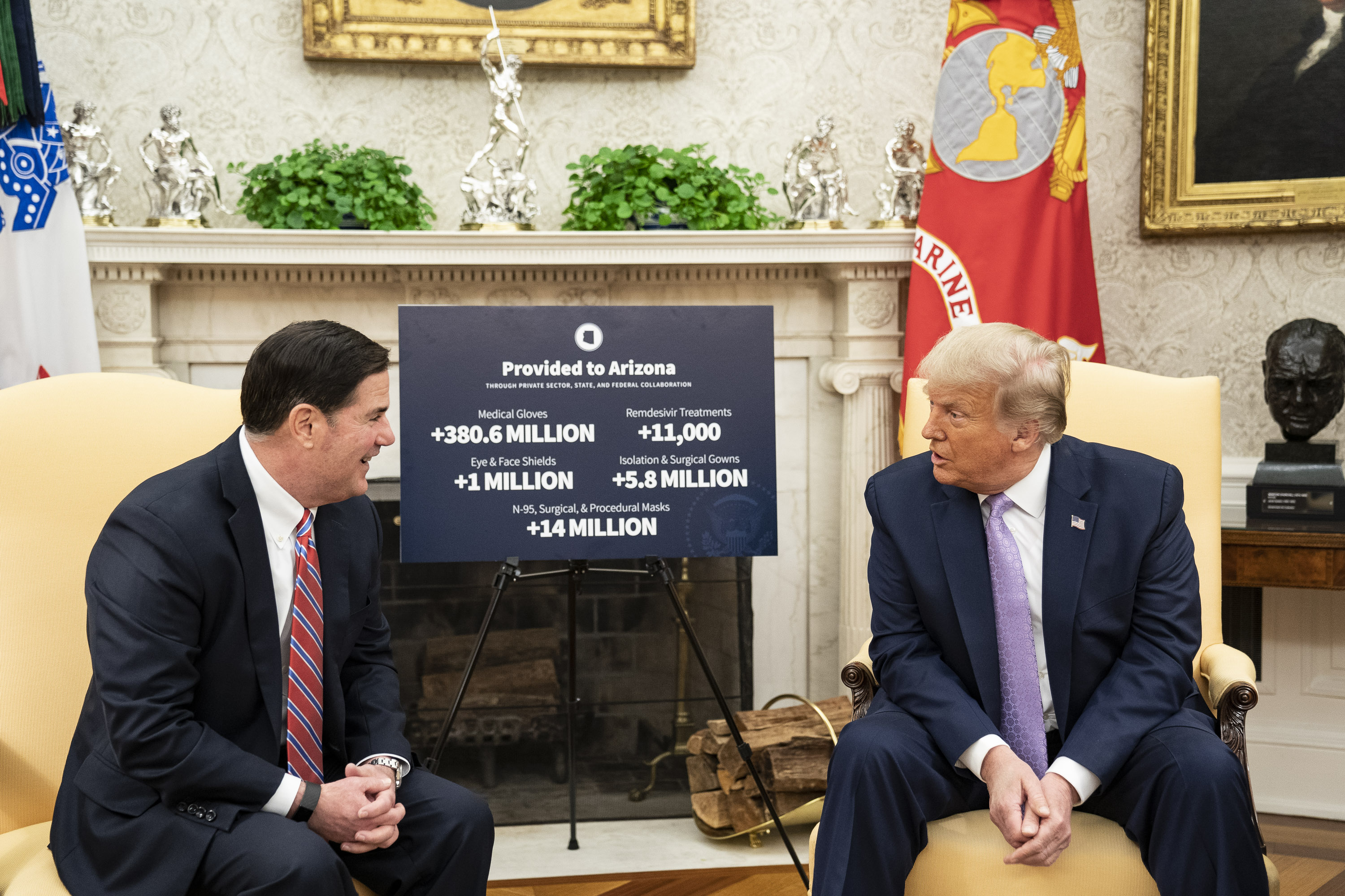 President Donald J. Trump meets with Arizona Gov. Doug Ducey Wednesday, August 5, 2020, in the Oval Office of the White House. (Official White House Photo by Joyce N. Bogohosian)